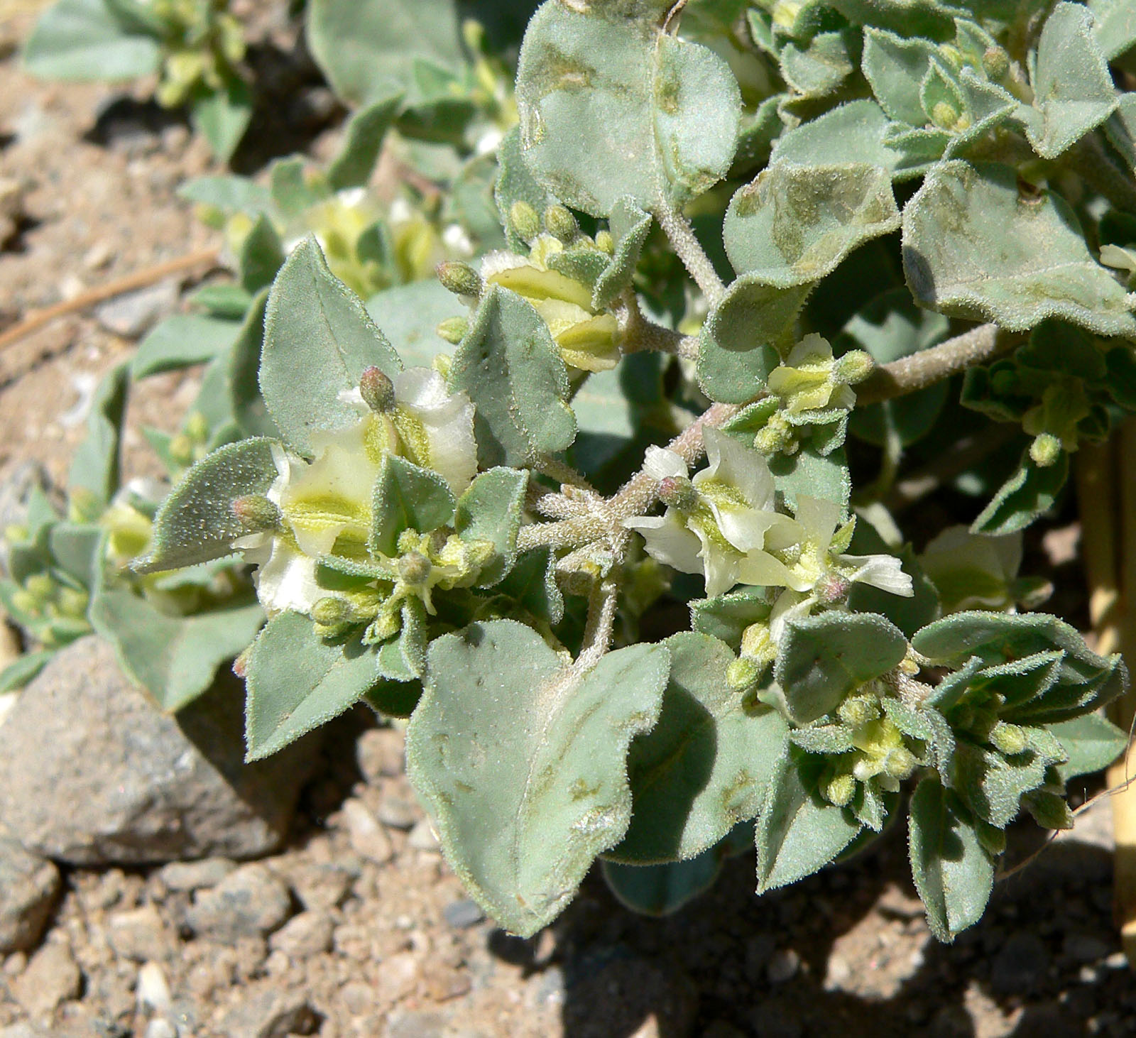 Acleisanthes nevadensis on a roadside in Bunkerville, southern Nevada